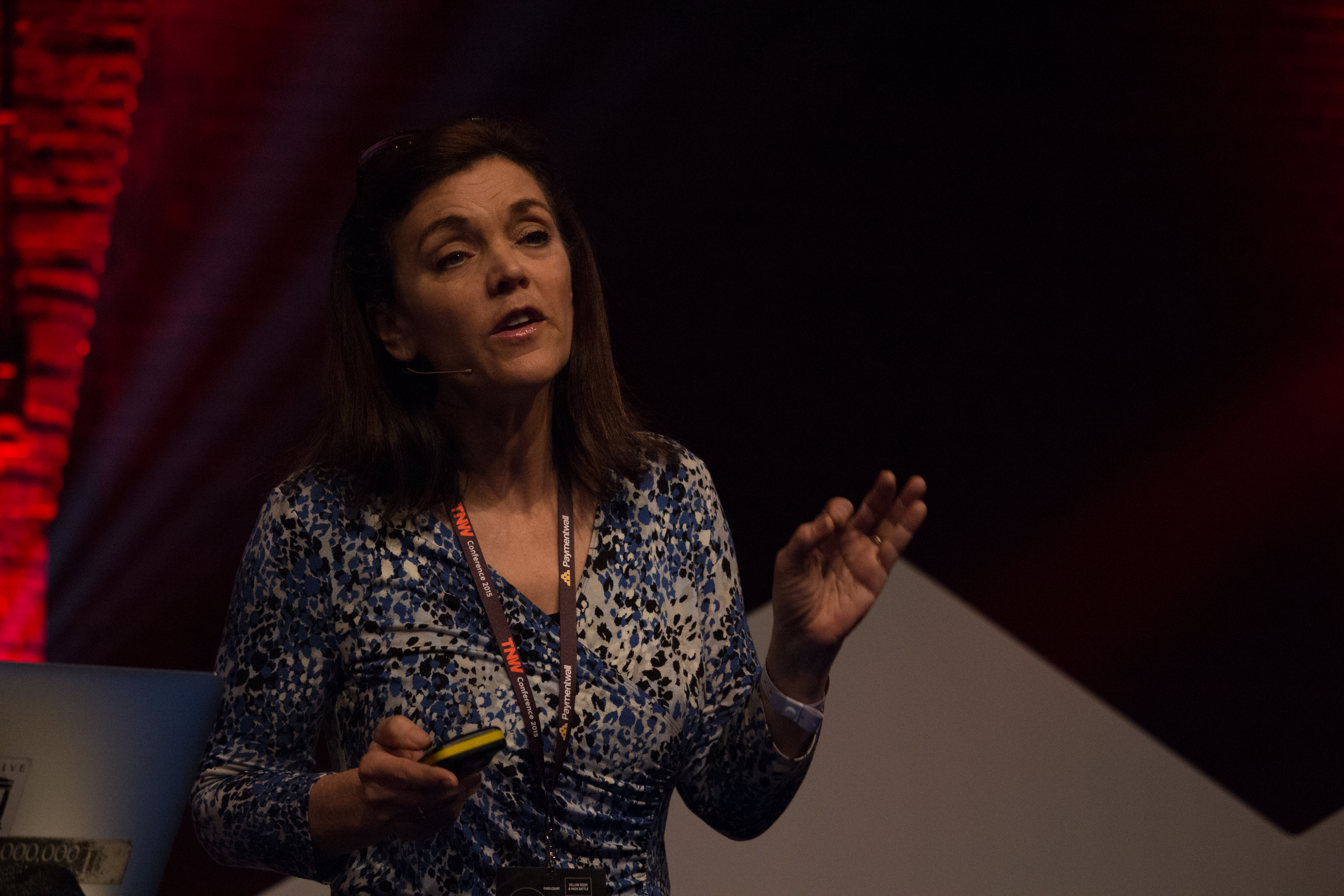 Amy Jo Kim speeking at TNW Conference